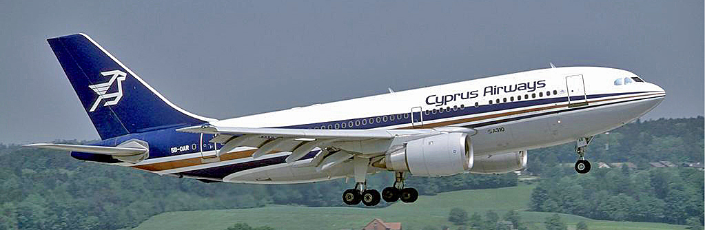 Airbus A310-200 of Cyprus Airways at Zurich Airport